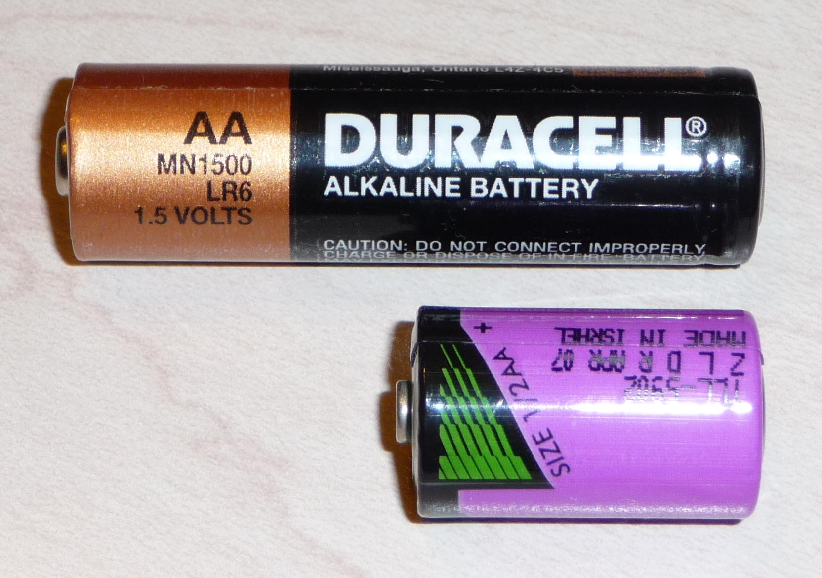 Comparison picture of 1/2 AA battery and a AA battery.